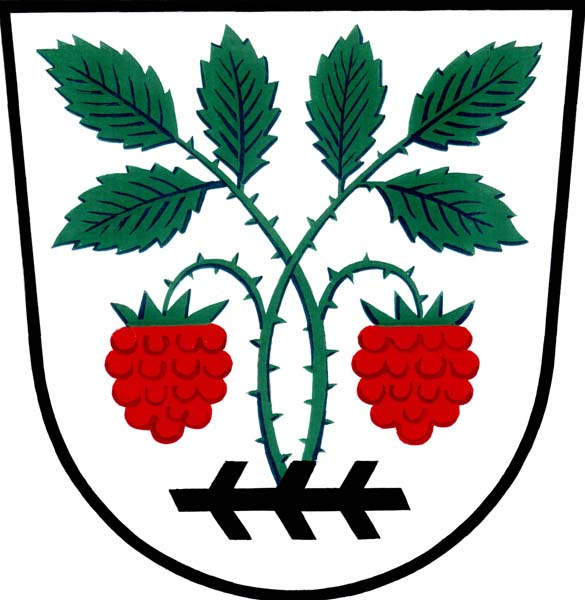 Municipal coat of arms of Malínky village, Vyškov District, Czech Republic.